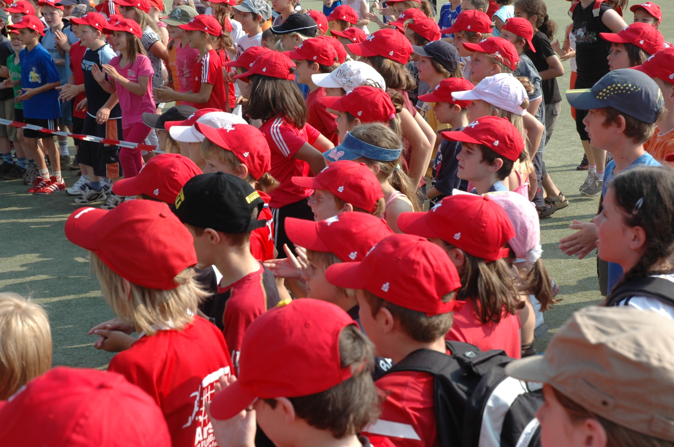 Kinder-Knax-Fest